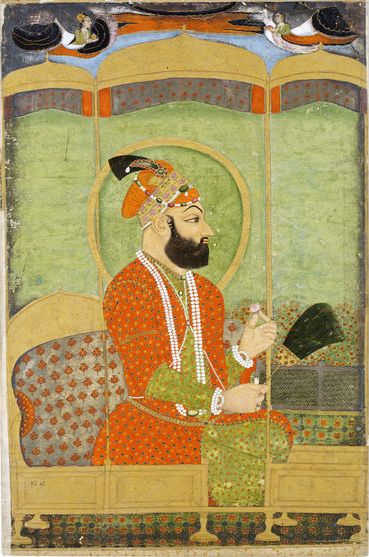 Mughal emperor Farrukhsiyar. Place of origin: India (possibly: Mughal, made). Pakistan (possibly: Mughal, made). Materials and Techniques:Painted in opaque watercolour and gold on paper. Victoria and Albert Museum number:IM.102-1922.